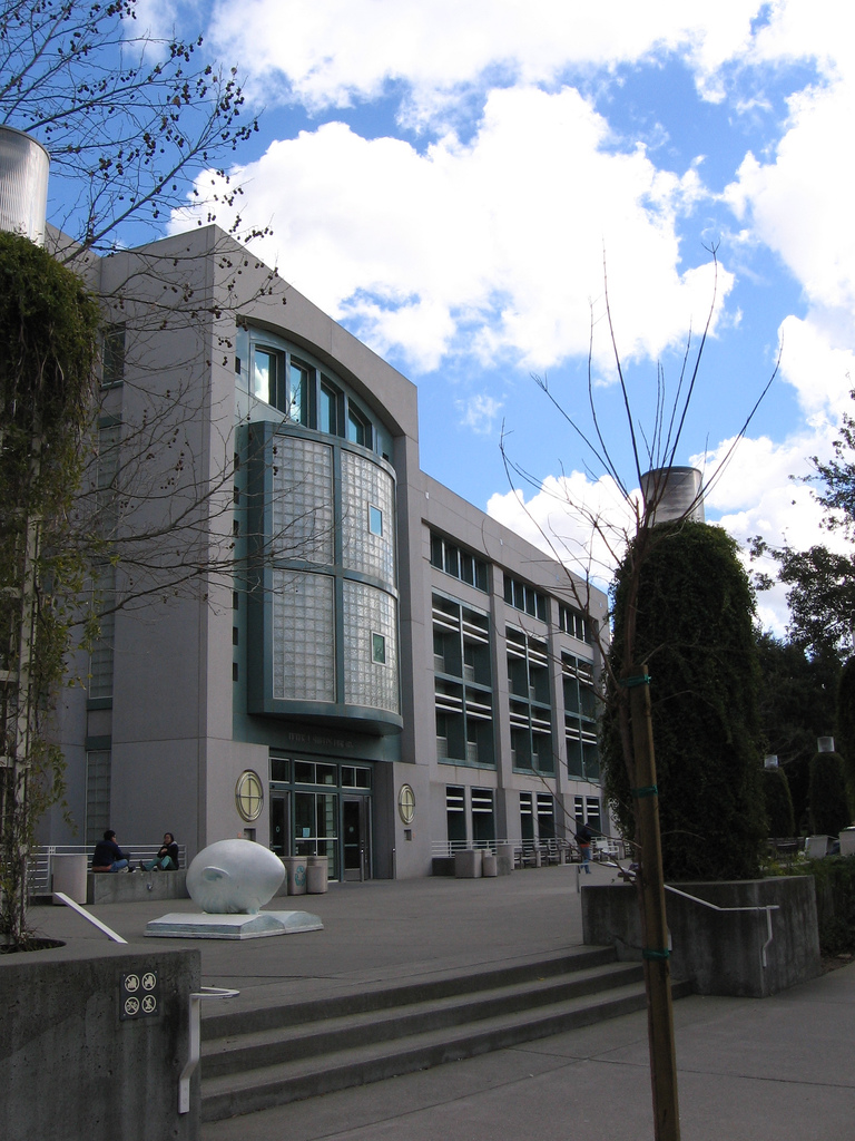 An image of Shield's Library at the University of California, Davis